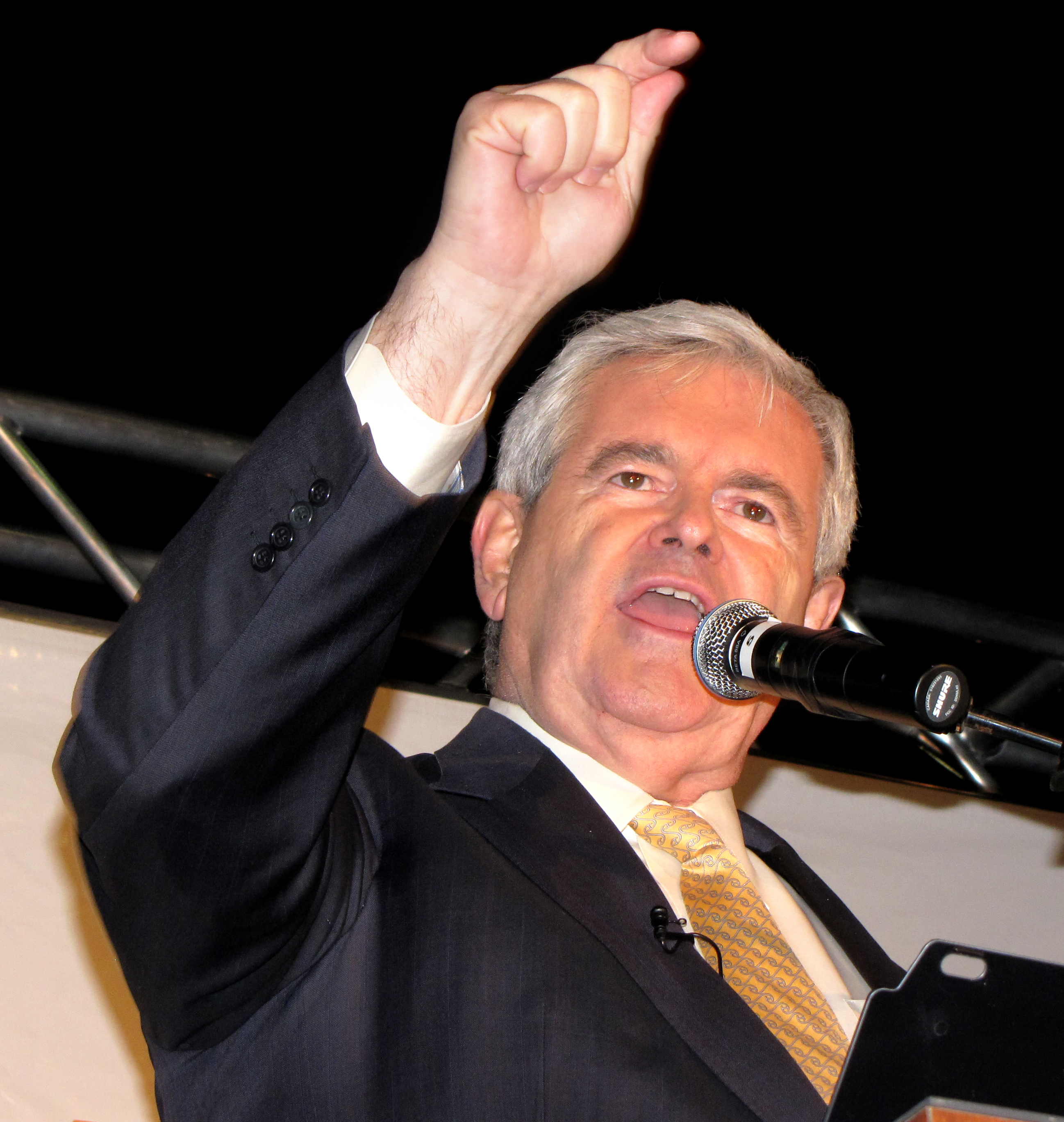 Former Speaker of the House Newt Gingrich speaking at the New York City Tea Party down in Wall Street